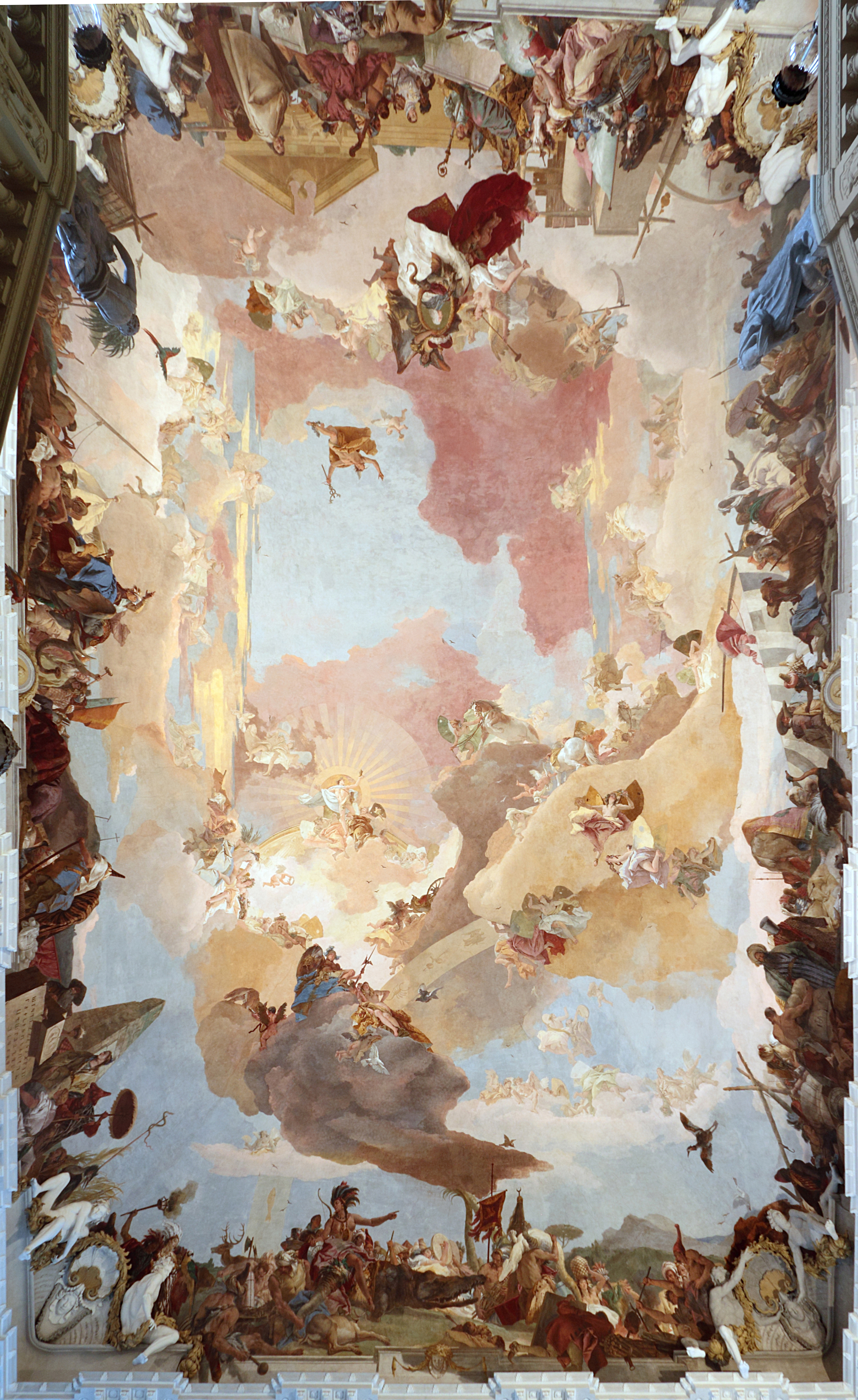 G.B. Tiepolo, ceiling fresco at Wurzburg Residence (apotheosis of Johann Philipp von Greiffenclau zu Vollraths, Prince-Bishop of Würzburg from 1699 to 1719)